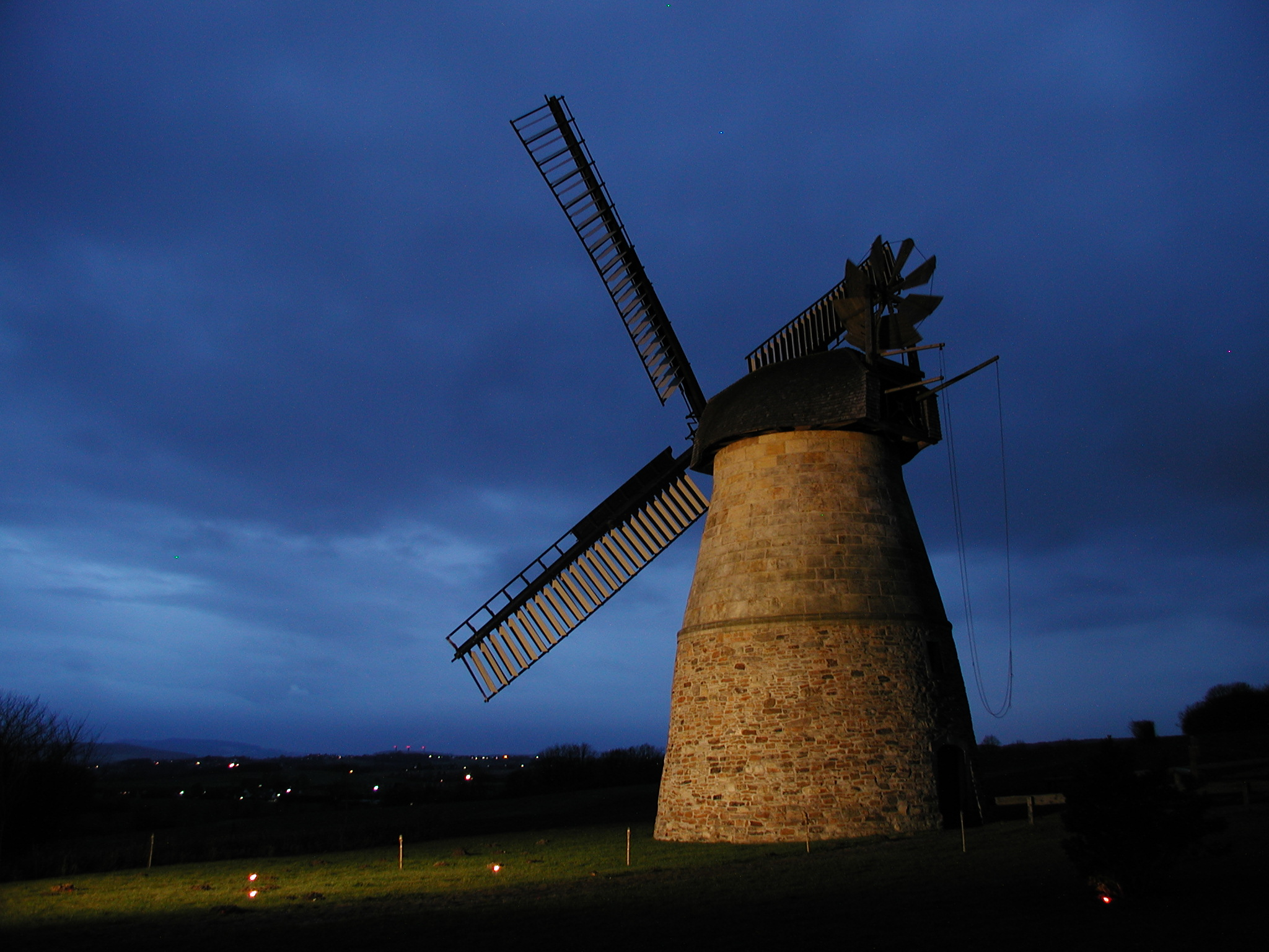 Wind mill in in Porta Westfalica, District of Minden-Lübbecke, North Rhine-Westphalia, Germany.